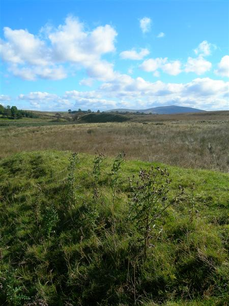 The Edge of Airds Moss The edge of Airds Moss, in the Ayr Valley. Cairn Table is visible in the far distance.